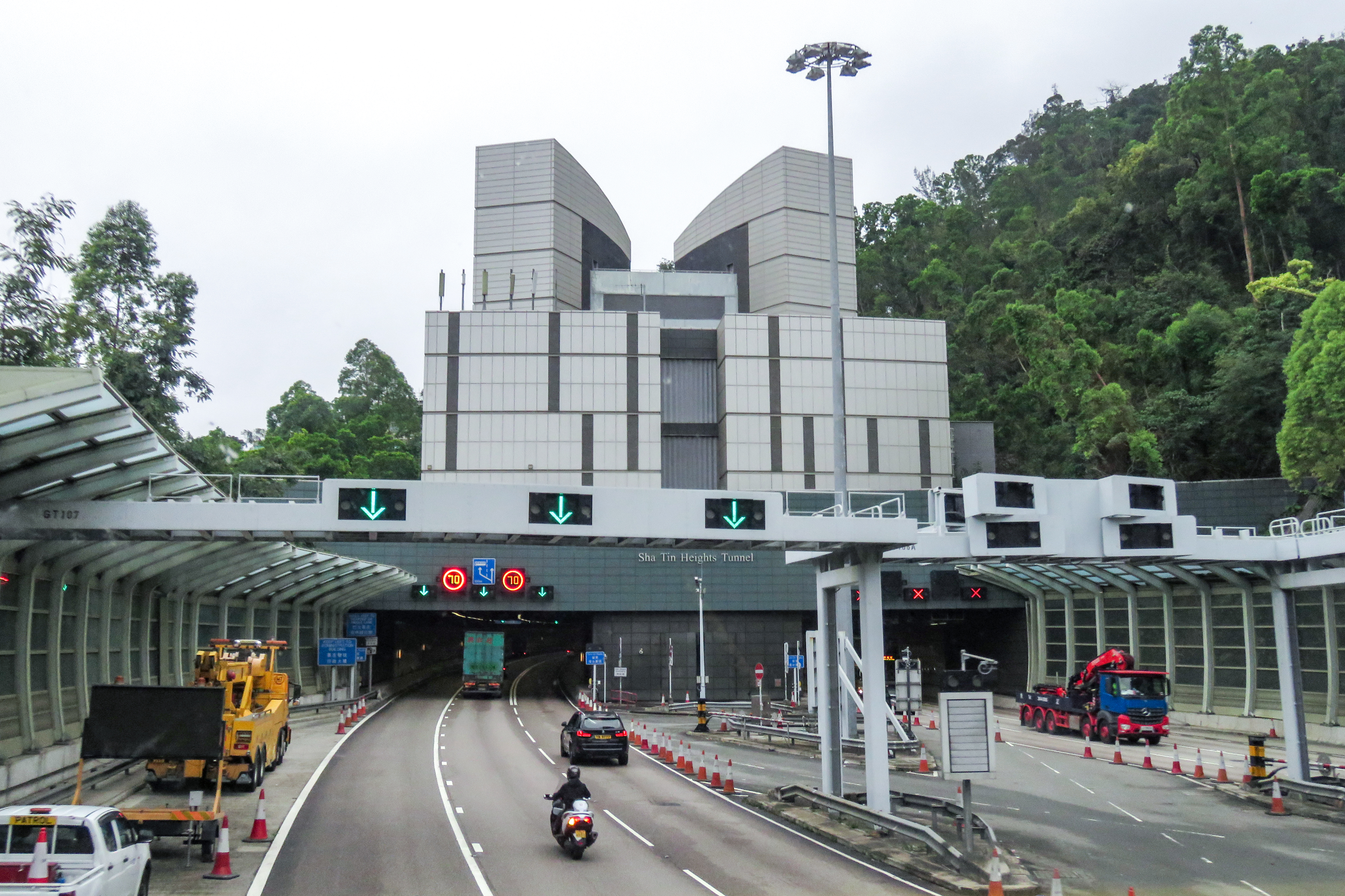 Taken from an inbound 985.